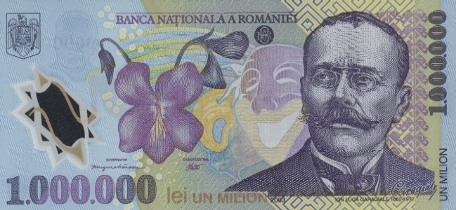 1 000 000 Romanian leu from 2003 - obverse